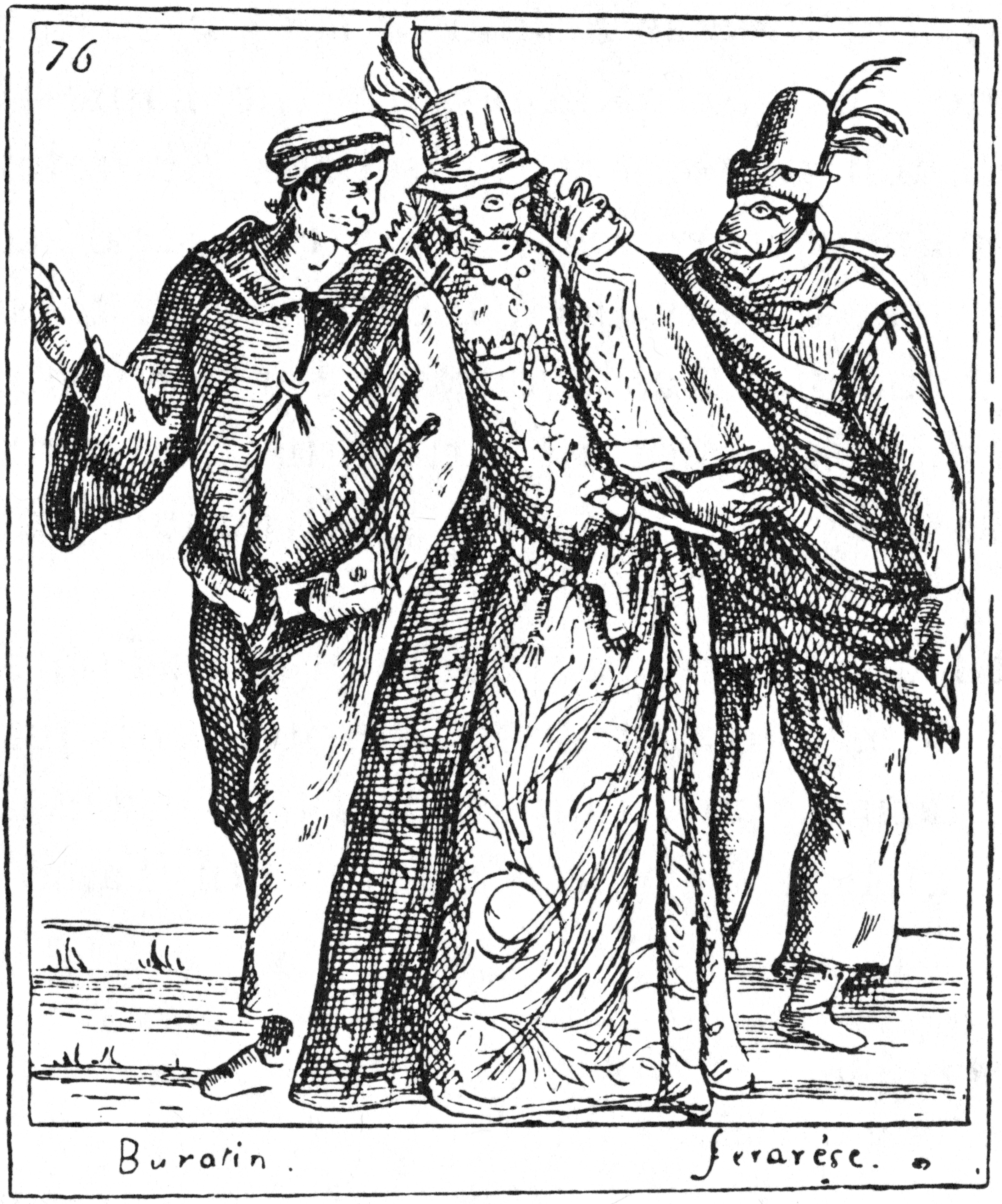 "A Courtesan and Burattino", characters of the commedia dell'arte, engraving reproduced in Duchartre 1929, p. 271